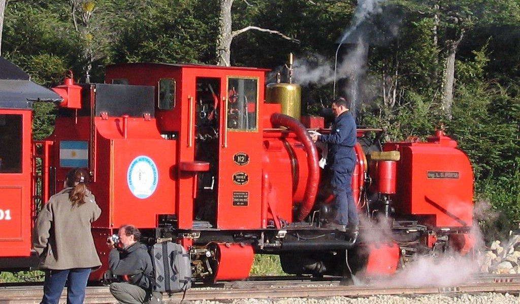 Garratt Locomotive of the Southern Fuegian Railway (Ferrocarril Austral Fueguino, FCAF)